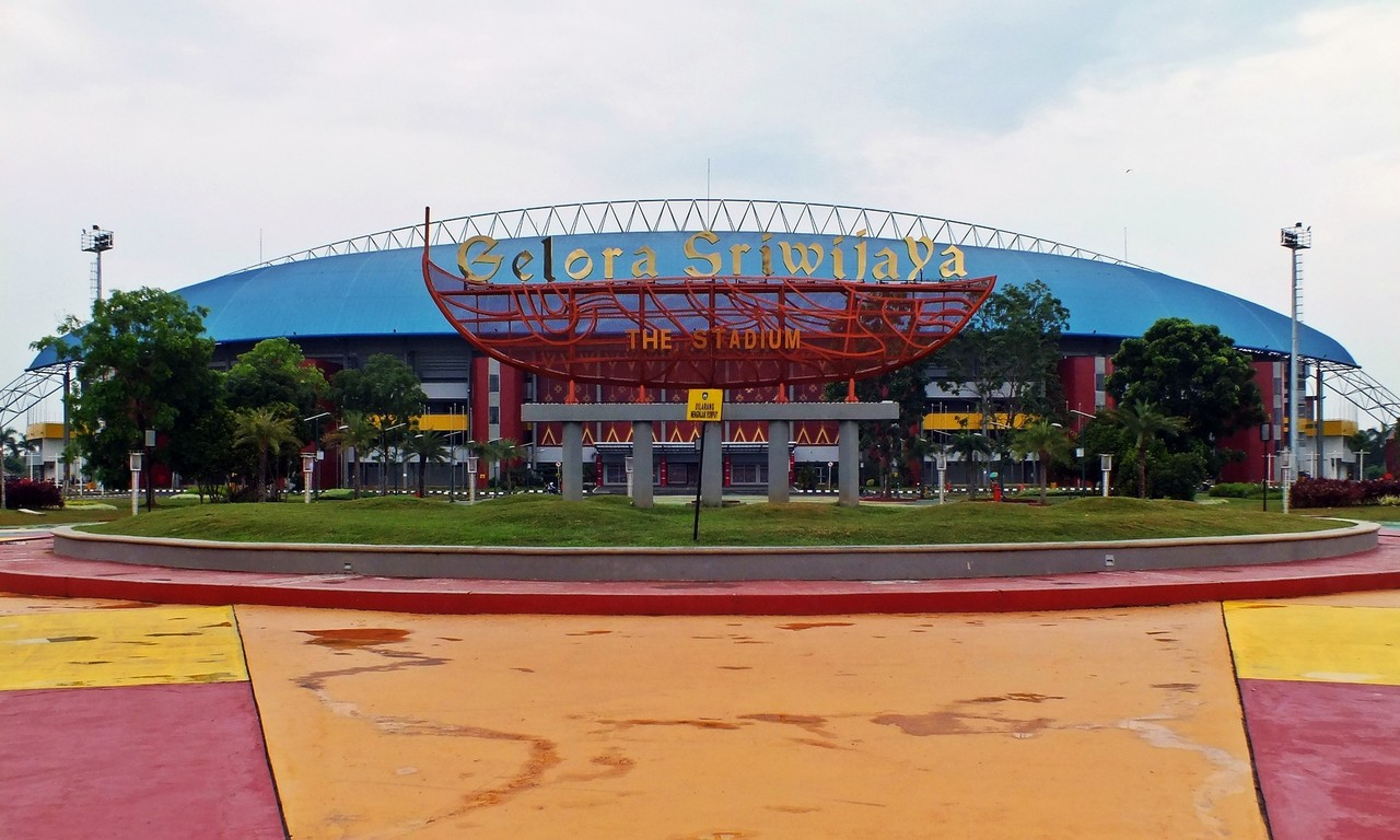 Event : 1. Host for 2004 National Sport Event (Pekan Olahraga Nasional), 2. Host for 2007 AFC Asian Cup - Jakarta and Palembang, 3. Host for 2011 Southeast Asian Games, 4. Host for 2013 Islamic Solidarity Games, 5. Host for 2018 Asian Games - Jakarta and Palembang.